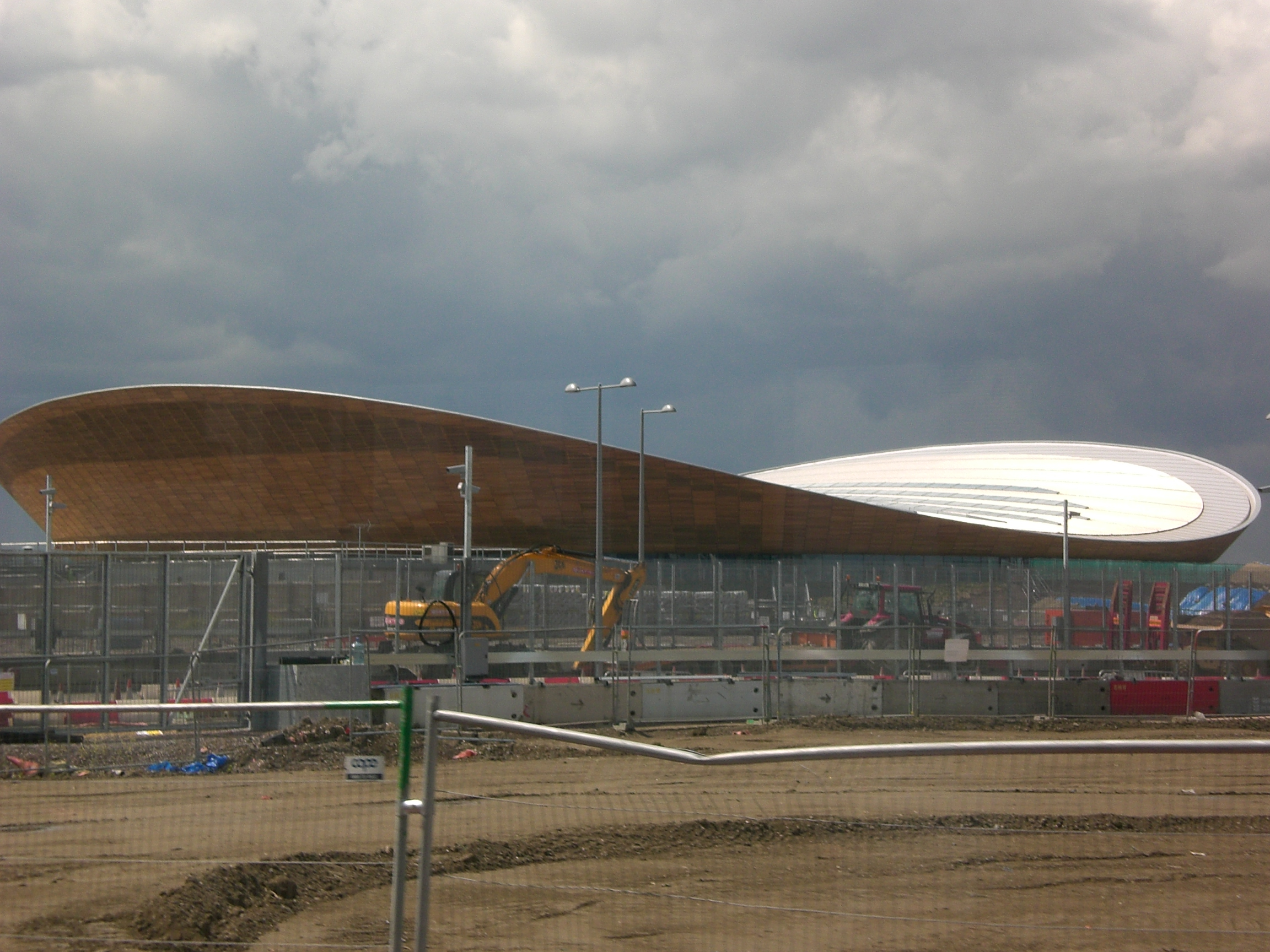 Four time British Olympic cycling gold medalist Chris Hoy gave a much need cyclists' viewpoint to the architects who designed the velodrome.